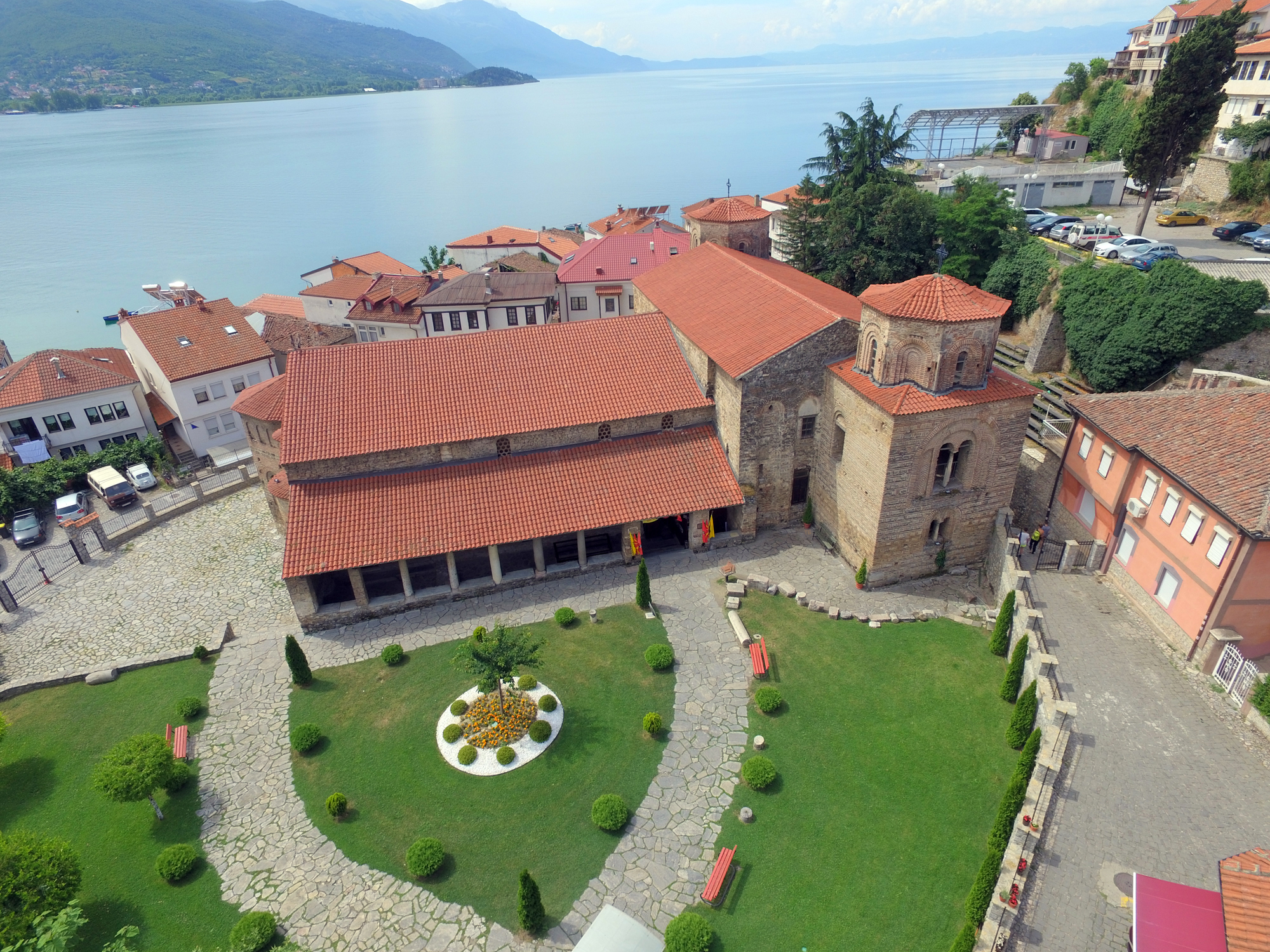 Church St. Sofia in Ohrid - view from the air